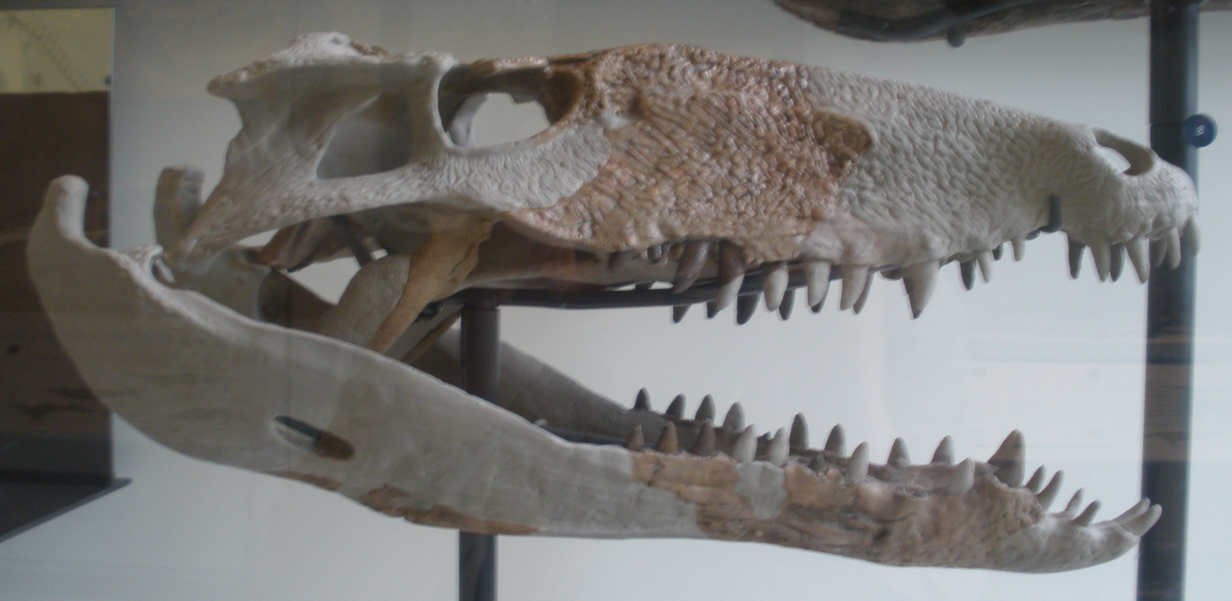 Fossil of Sebecus icaeorhinus, an extinct crocodile